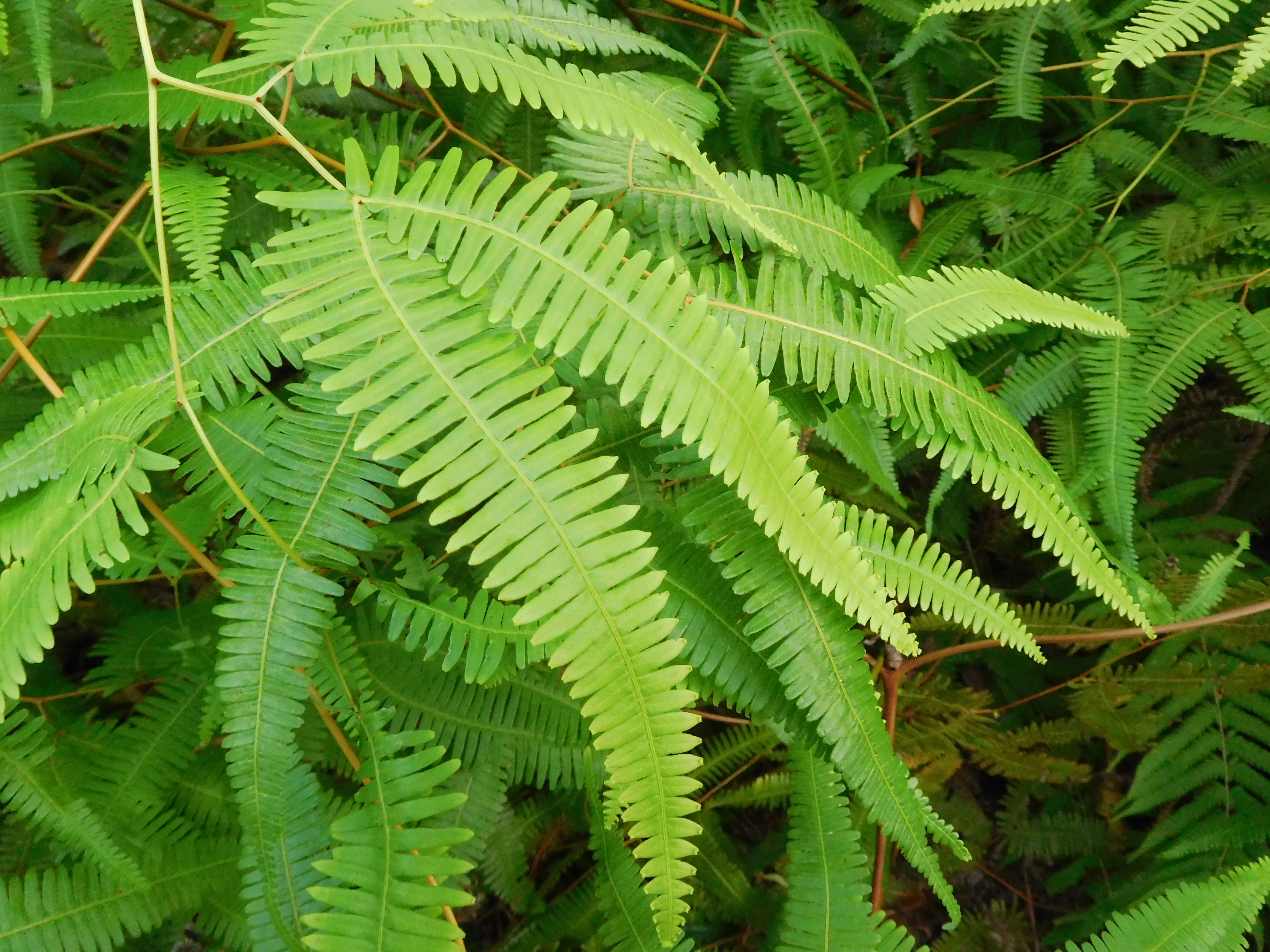 Dicranopteris linearis